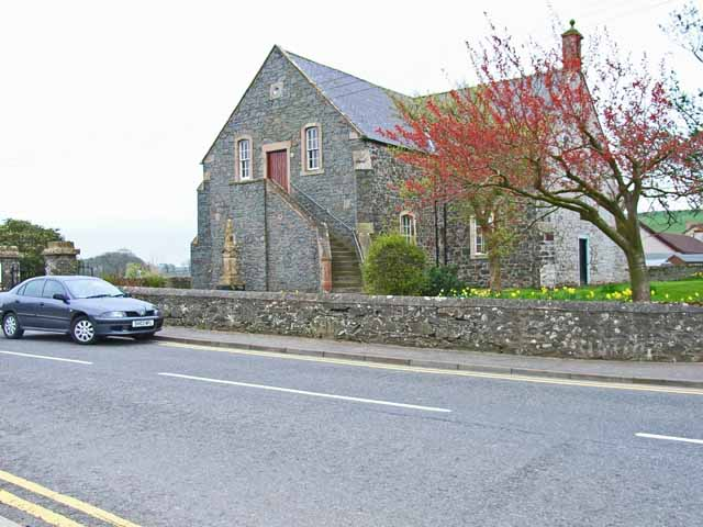 Leswalt Parish Church. This large striking building, dating from 1828, could almost be mistaken for a house. It is not the first church in the village - originally there was a medieval church located somewhere nearby.